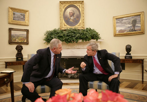 President Bush Welcomes Prime Minister Sanader of Croatia to the White House President George W. Bush and the Prime Minister of the Republic of Croatia H.E. Ivo Sanader talk together in the Oval Office at the White House, Tuesday, Oct. 17, 2006. White House photo by Eric Draper